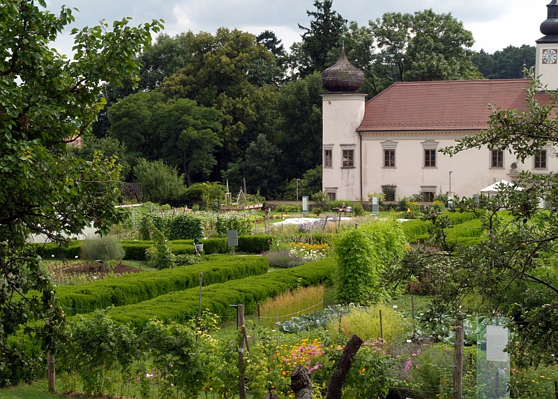 Visitors Garden of Arche Noah Austrian Seed Savers Ass. 2010-07